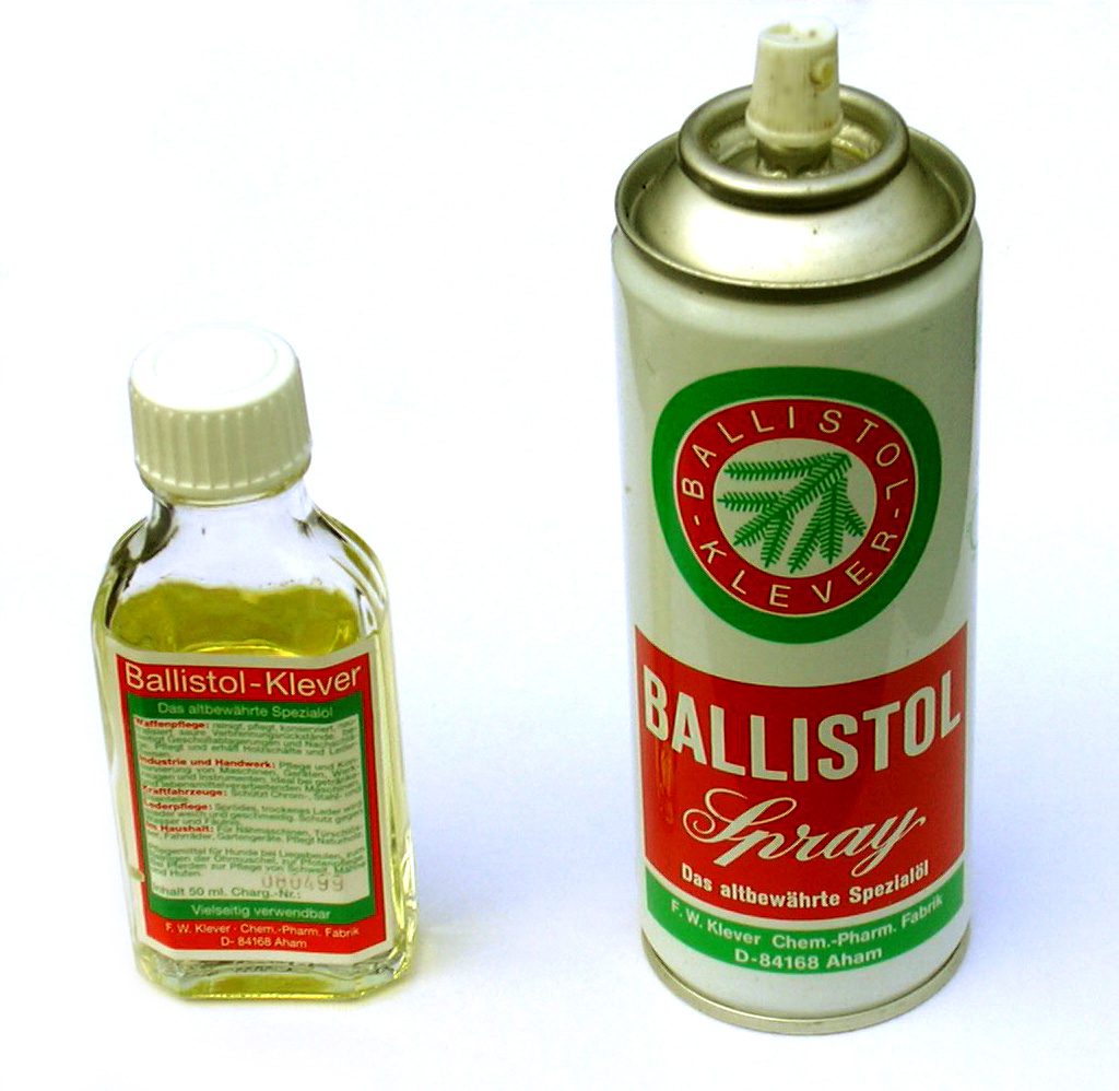 Ballistol (meaning 'Ballistic Oil') is a mineral oil-based chemical which advertises that it has many uses. It was originally intended for cleaning, lubricating, and protecting firearms. The product originated from Germany before World War II, after the military requested an 'all-around' oil and cleaner for their rifles and equipment..